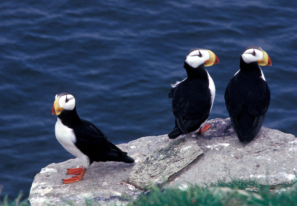 Horned Puffin Trio (Fratercula corniculata)